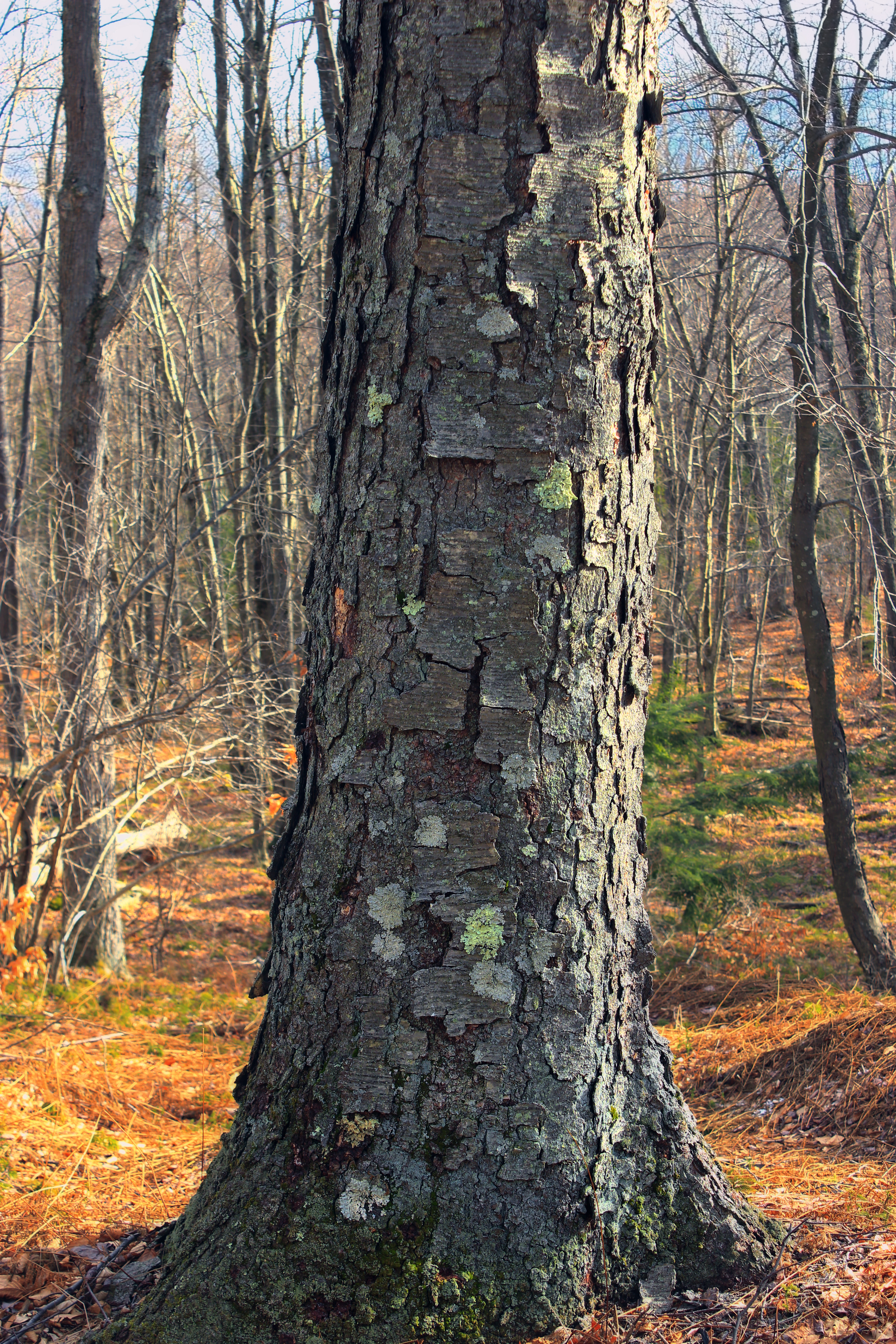 Large, old-growth sweet birch (Betula lenta) on the summit of Bartlett Mountain, Wyoming County, within State Game Land 57. Sweet birches often develop cracked, plated bark as they age. Unlike many other birches, the bark doesn't peel away in papery masses.